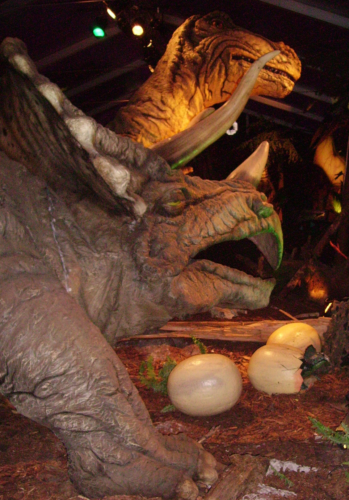 Amusement park Geiselwind, Germany